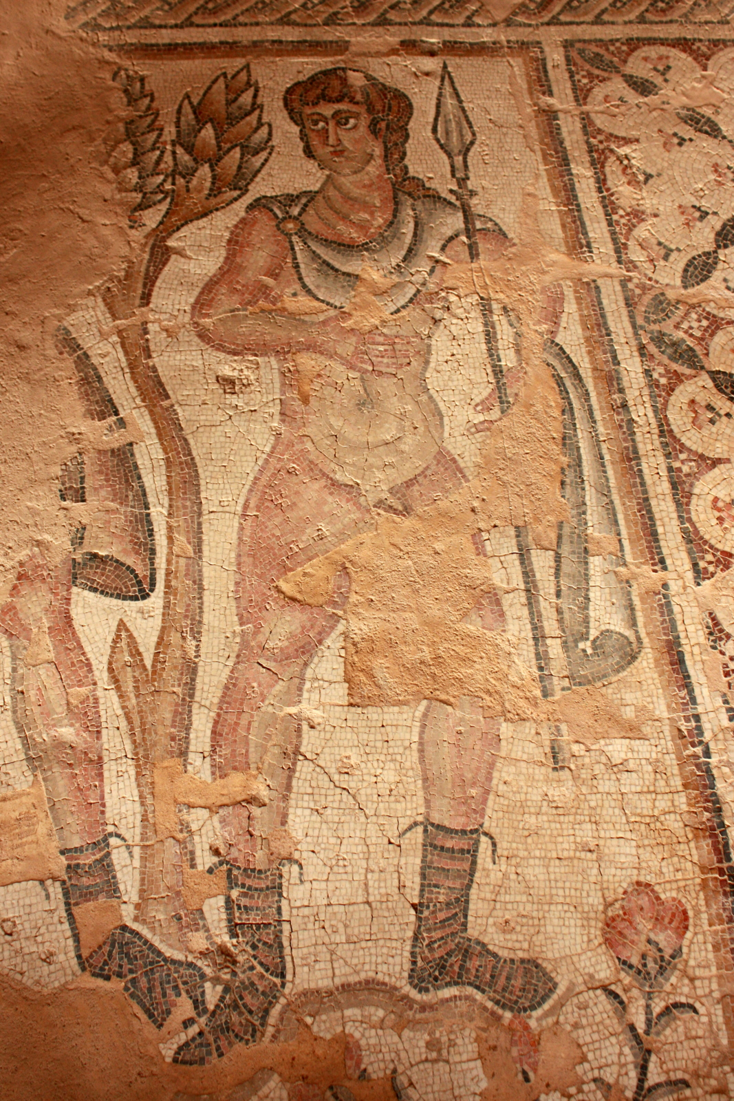 Archeological sites of Israel